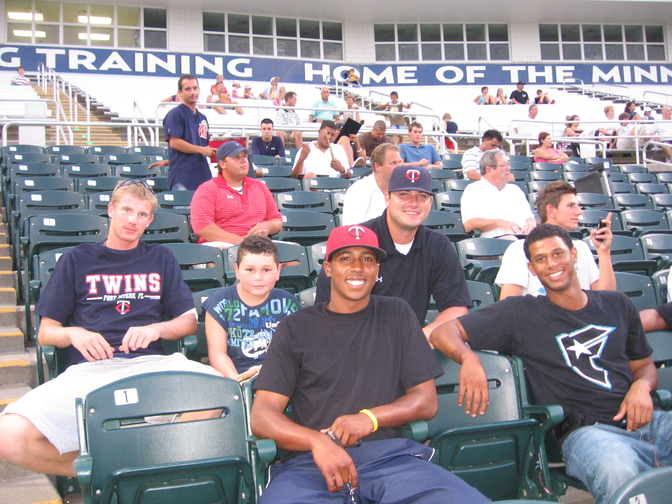 Several players in the stands at a Miracle game